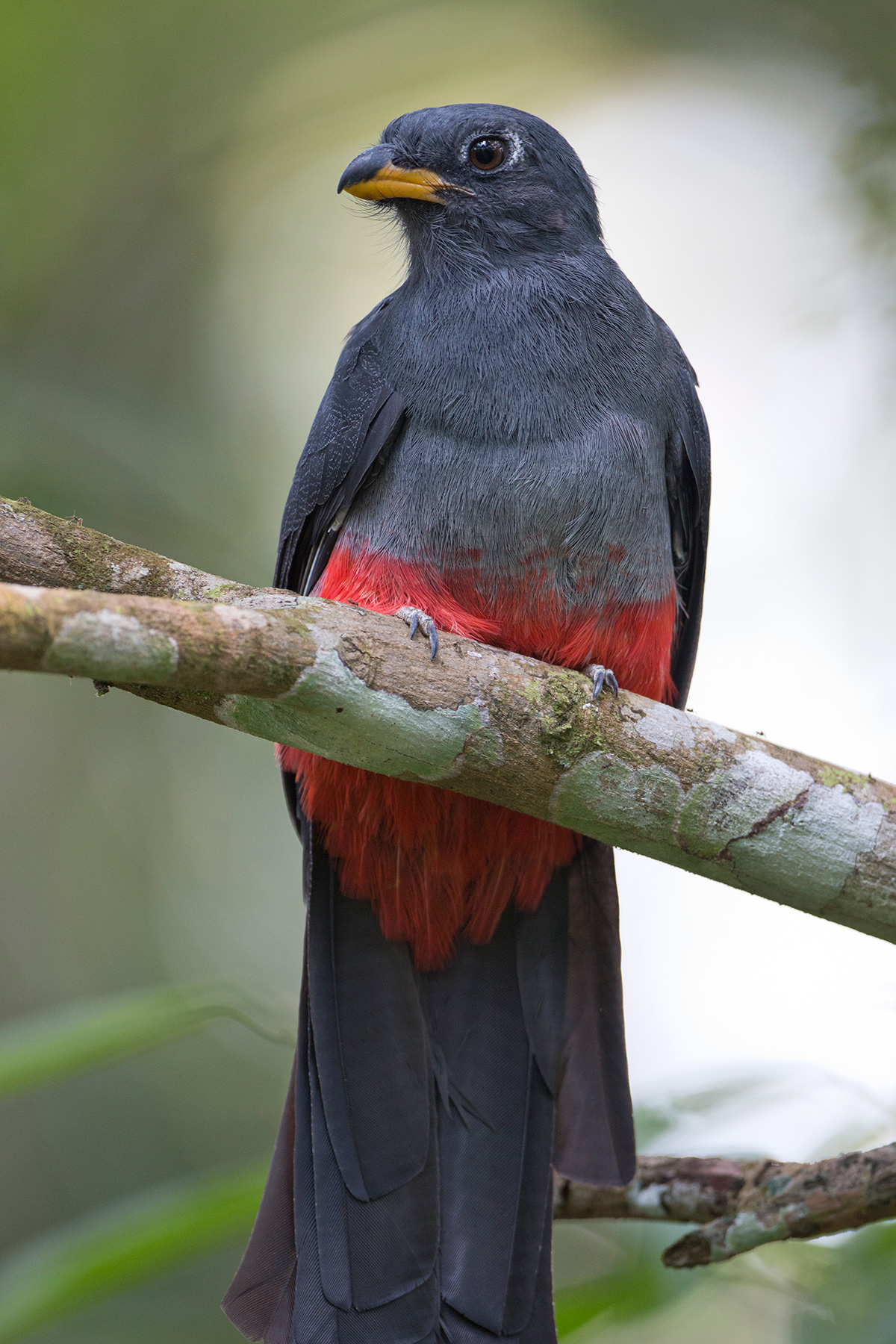 Female Black-tailed Trogon near Sacha Lodge, Ecuador